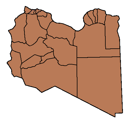 Blue: Districts which neither party has overall control. Brown: Districts controlled by the National Transitional Council. This map is based on 2011 Libyan uprising Wikipedia article map